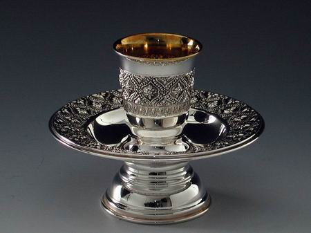 A Silver Mayim Achronim Set used in Judaism to wash hand at the end of a meal. This Mayim Achronim Set was made by Hadad Silver.